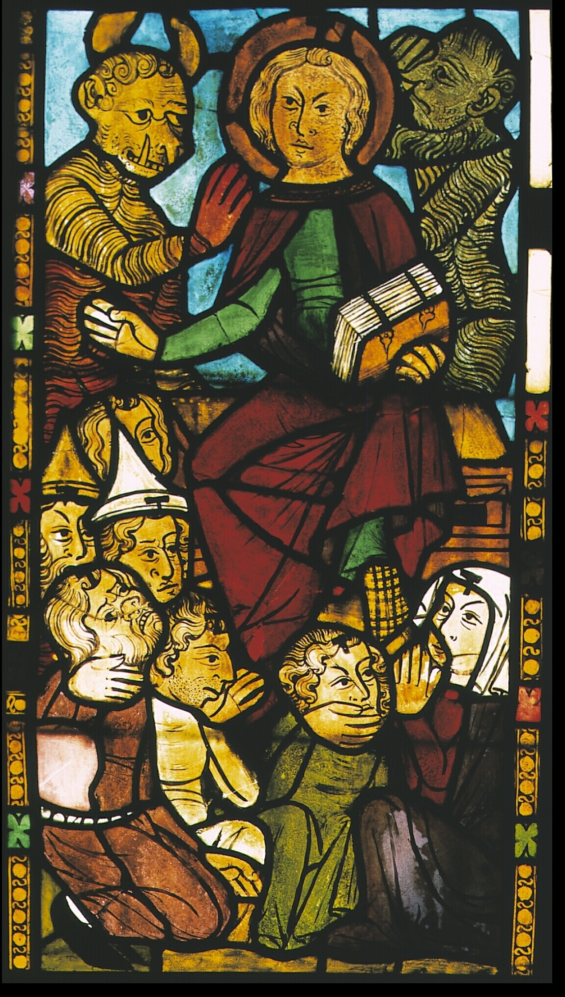 Picture of the Antichrist and his believers in a window of the St. Marien church of Frankfurt (Oder), Germany